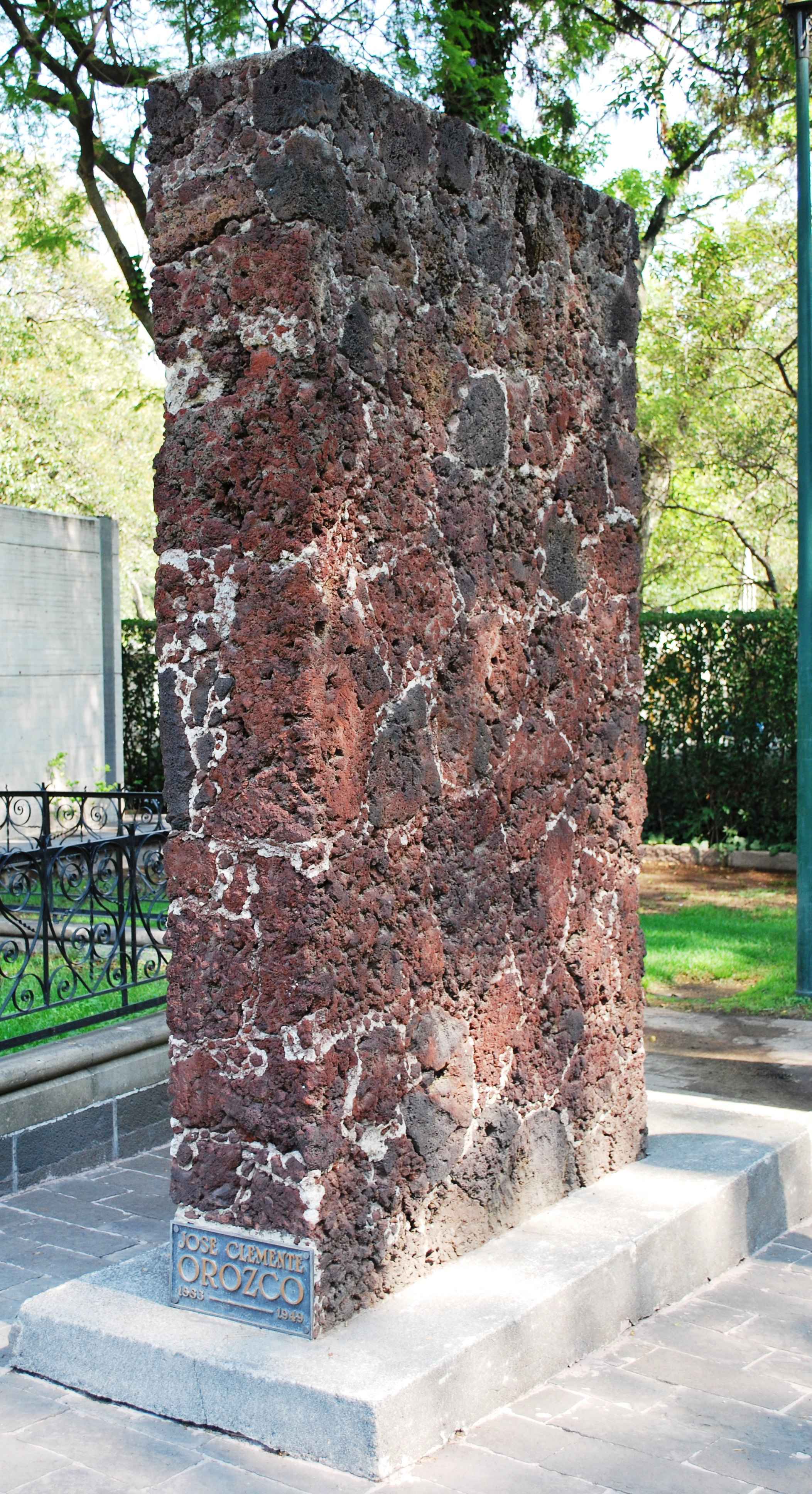 Tomb of Jose Clemente Orozco in the Panteon Civil de Dolores cemetery in Mexico City